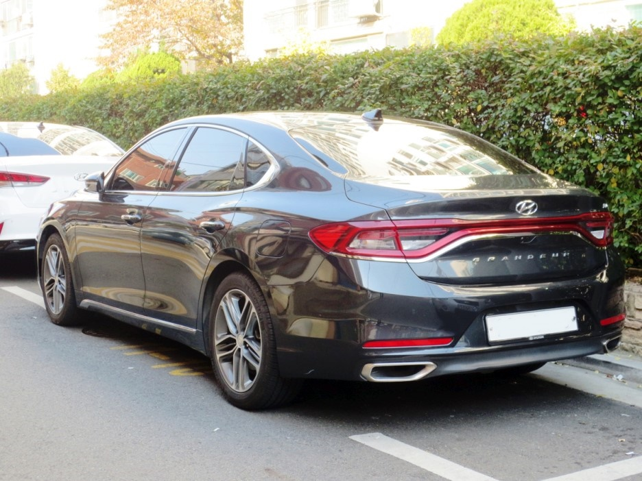 Hyundai Grandeur (IG)